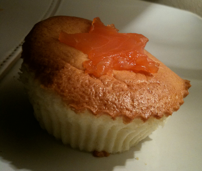 Smoked salmon cheese cake in cupcake form